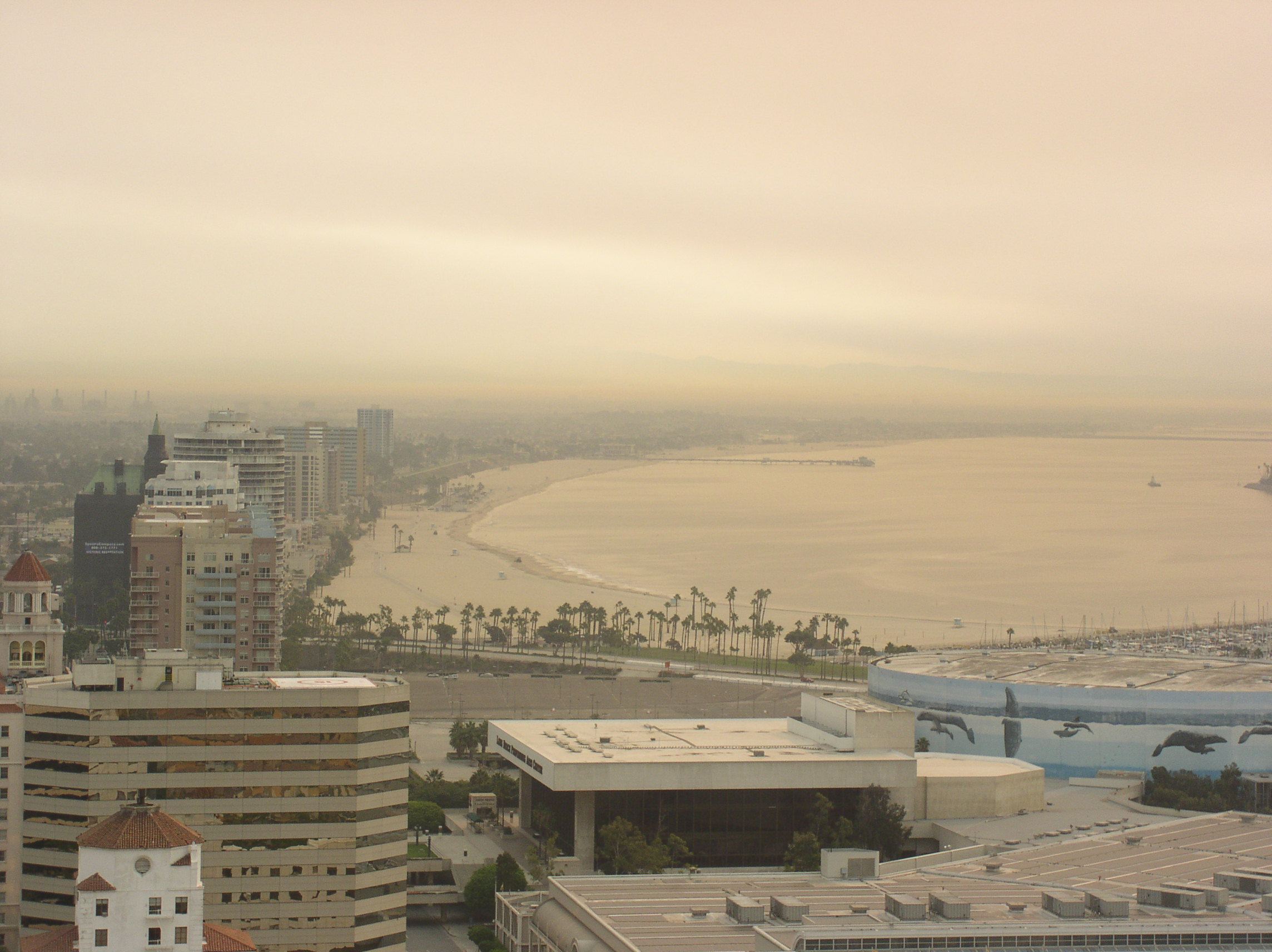 The skyline of Long Beach, California, looking east on the morning of October 24, 2007, with the sky filled with smoke from the major wildfires in Los Angeles County. Picture was taken from a helipad atop a downtown skyscraper.